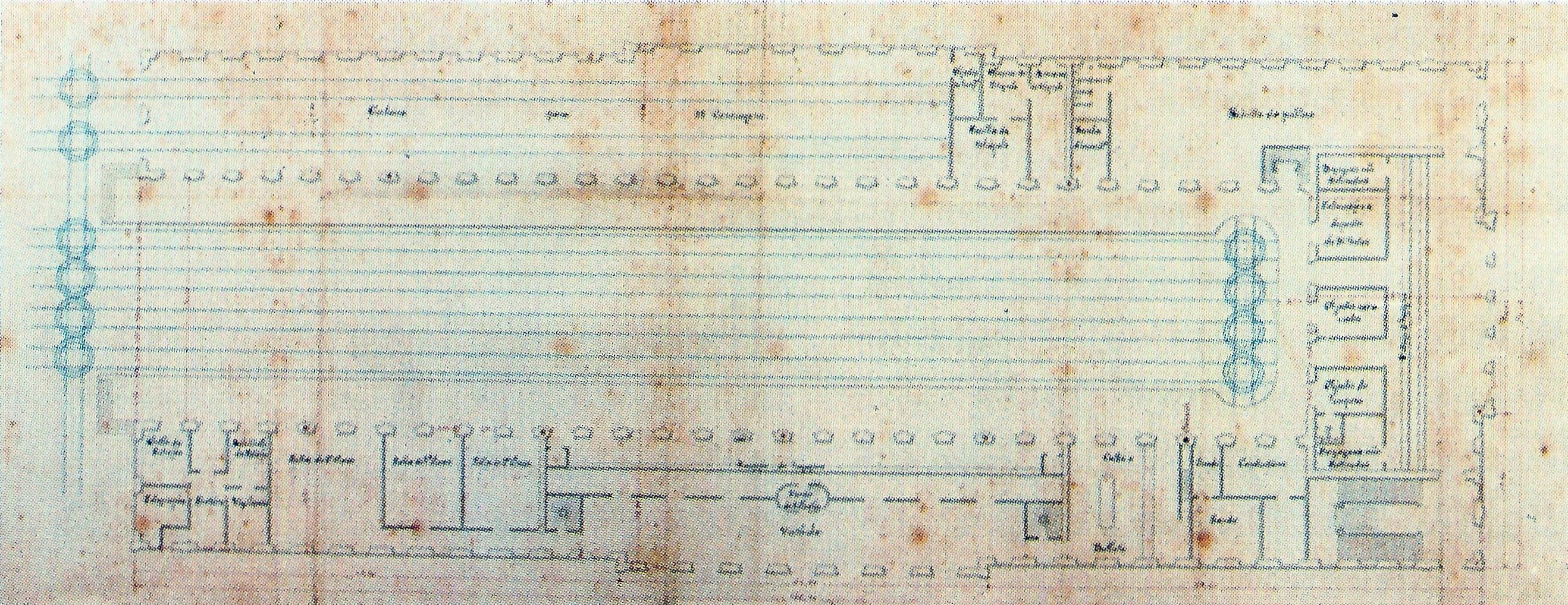 Blueprint for the platform level on the Santa Apolónia Railway Station, in Lisbon, Portugal. This document dates from circa 1856.